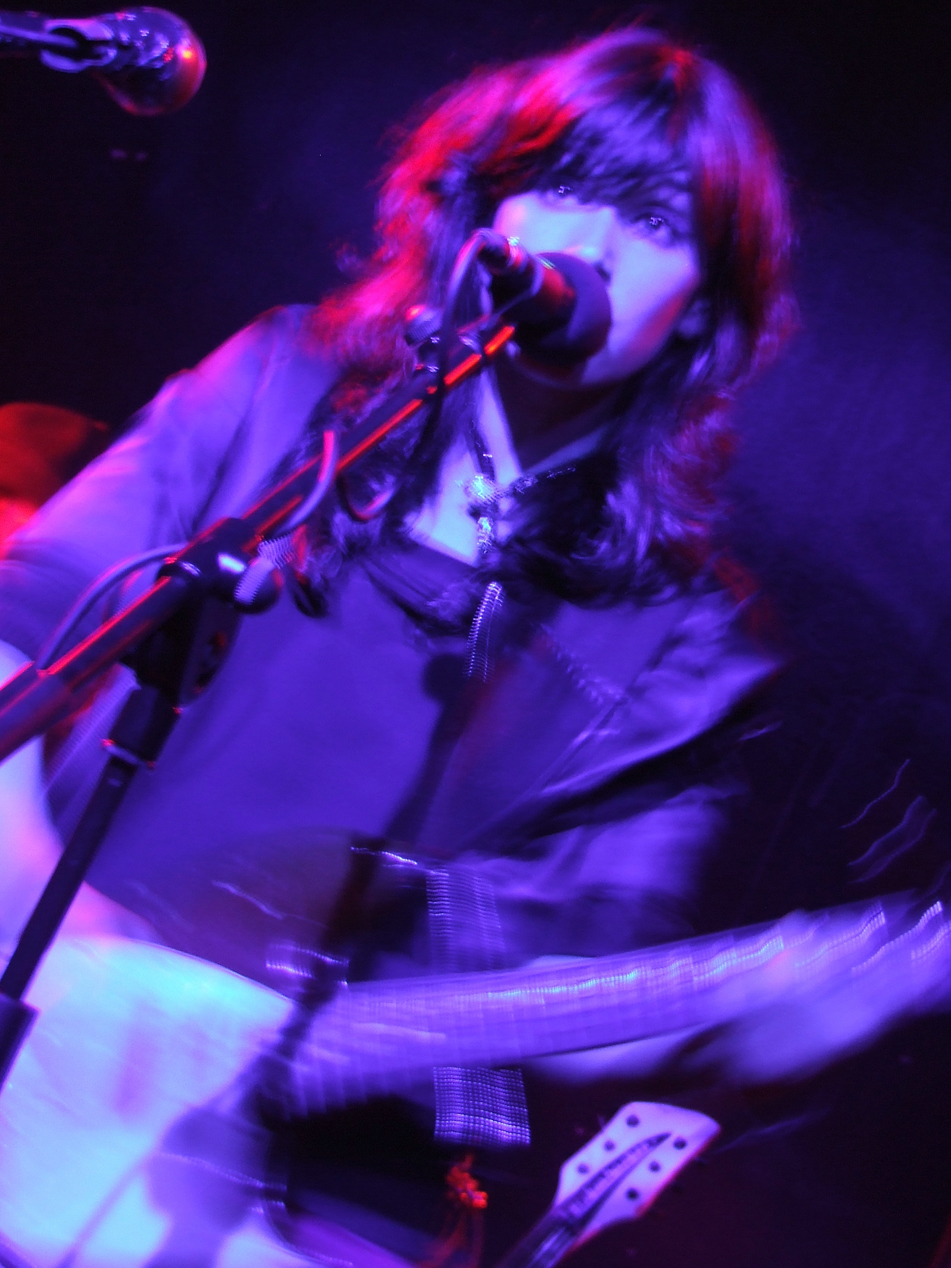 Juanita Stein of Howling Bells at Newcastle Academy on 15th August 2006.